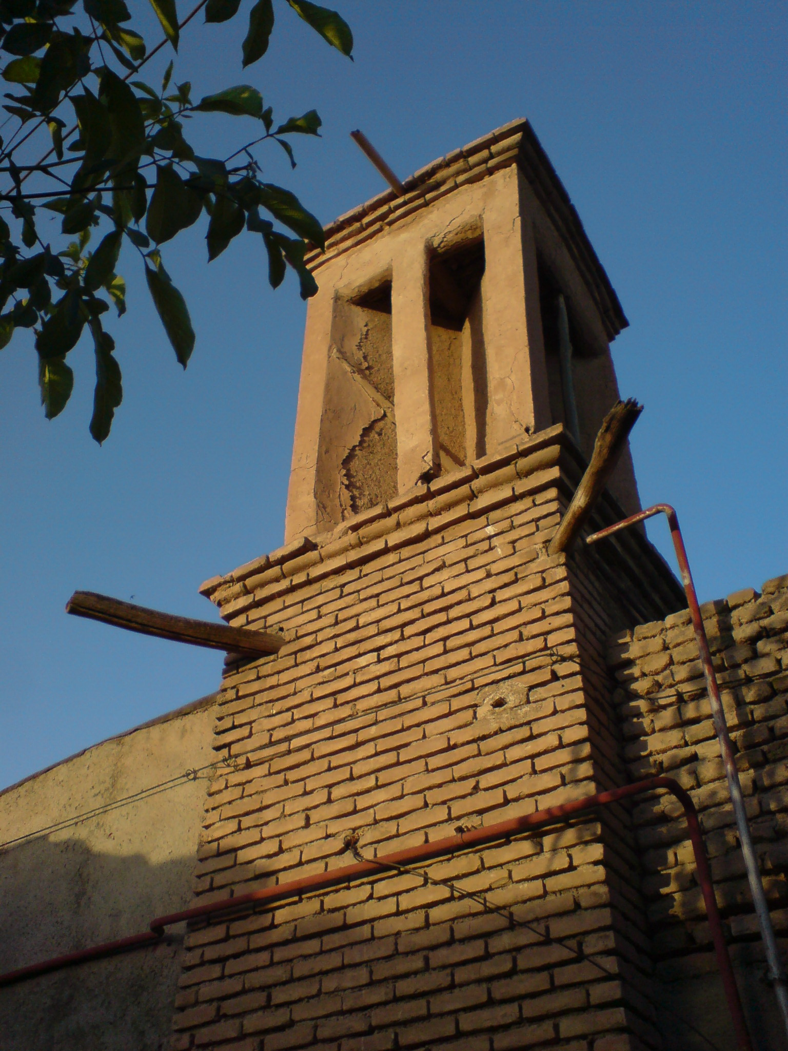 Windcatcher_in_Nishapur_(_Badgir)_